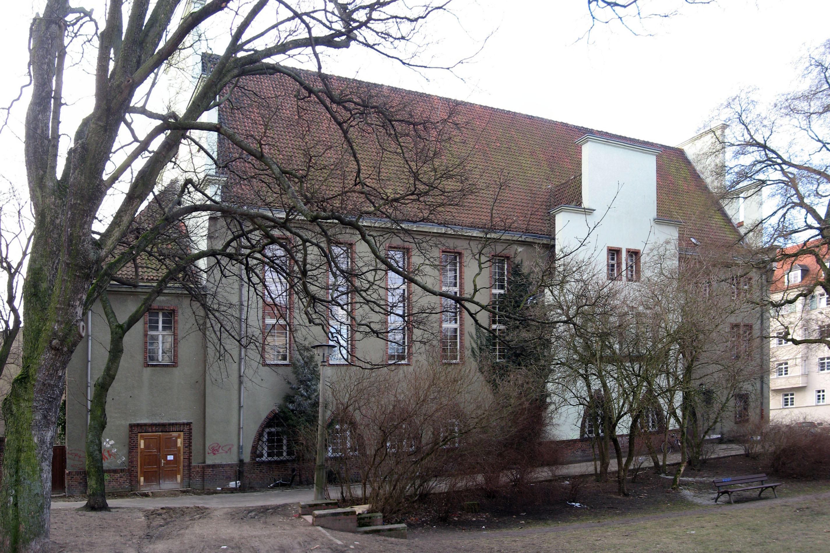 Paul Gerhardt House in Leipzig-Connewitz, Selneckerstrasse 7